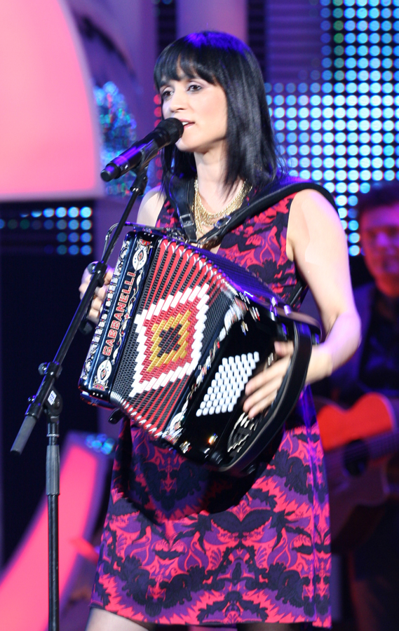 Nobel Peace prize Concert 2008, Oslo Spektrum, Julieta Venegas